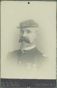 1870 Photo of Frazier A. Boutelle from the Historic Photograph Collections-Frazier A. Boutelle photographs, c. 1865-1924.Collection number:PH119, Special Collections and University Archives, University of Oregon, Eugene,Oregon 97403-1299.